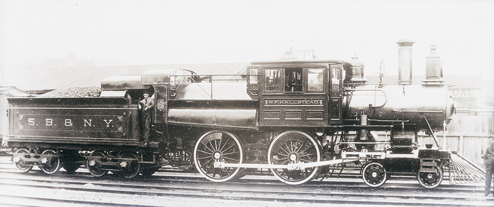 Title: [Syracuse, Binghamton and New York, Engine 5, W.F. Hallstead] Creator: Unknown Date: n.d. Physical Description: 1 negative: film, black and white; 10 x 25 cm File: ag1982_0212_048_45_sm_opt.jpg Rights: Please cite Southern Methodist University, Central University Libraries, DeGolyer Library when using this image file. A high-quality version of this file may be obtained for a fee by contacting . For more information, see: View Railroads - Photographs, Manuscripts, and Imprints